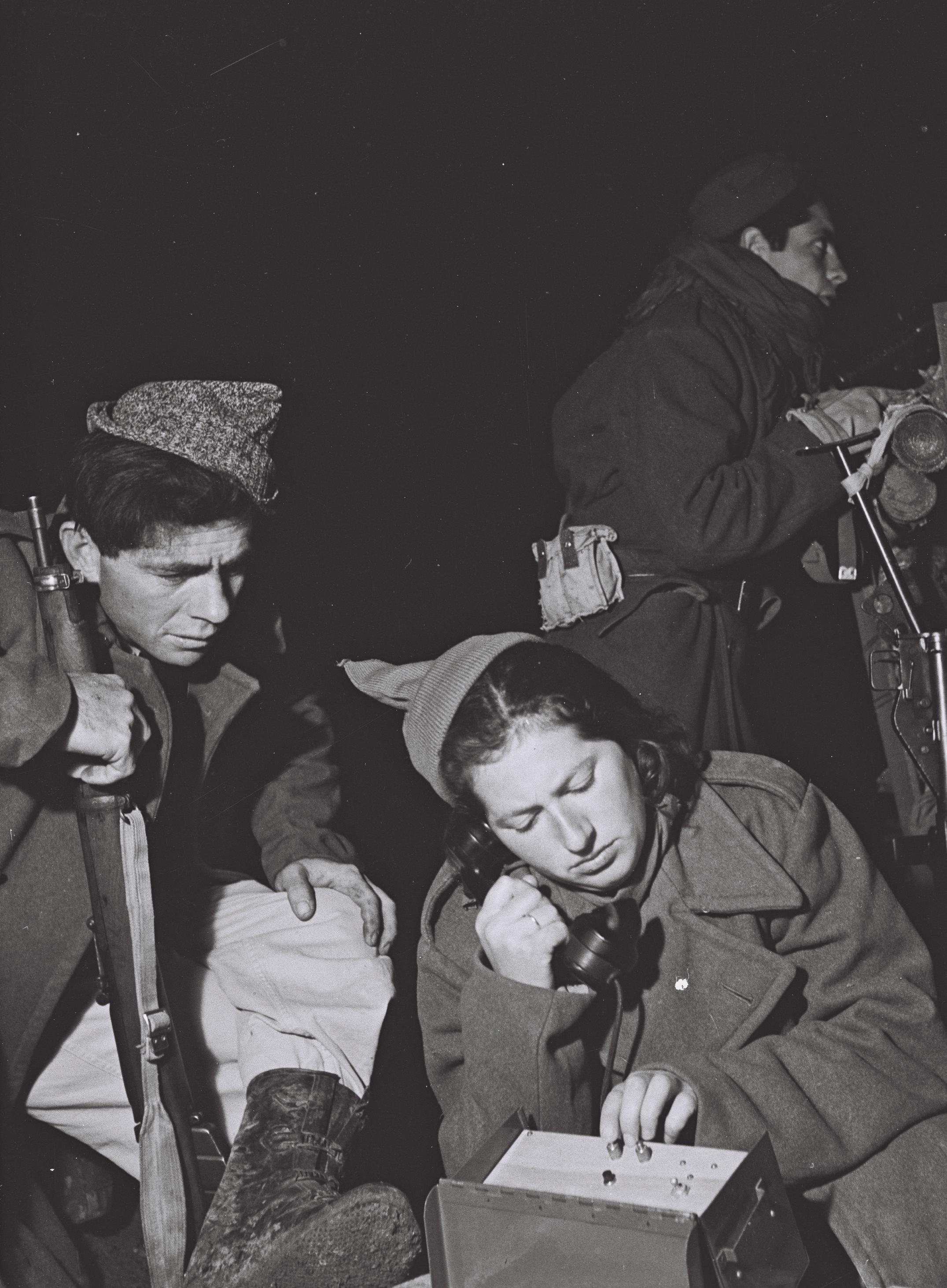 Hagana wireless operators working at their post in Kibbutz Ein Harod. חברי ההגנה מפעילים את מכשיר האלחוט בקיבוץ עין חרוד Photo: Zoltan Kluger (1896–1977) Alternative names Qlwger, Zwlṭan; Zolṭan Ḳluger; Kluger, Z.; W. von Szigethy; W. Von SzighethyDescriptionHungarian-Israeli photographerDate of birth/death 8 February 1896 16 May 1977Location of birth/death Kecskemét ManhattanAuthority control : Q7035699 VIAF: 19504001 ISNI: 0000 0000 6686 1613 ULAN: 500483392 LCCN: no2008144265 Open Library: OL6614008A WorldCat creator QS:P170,Q7035699 , 02/12/1949